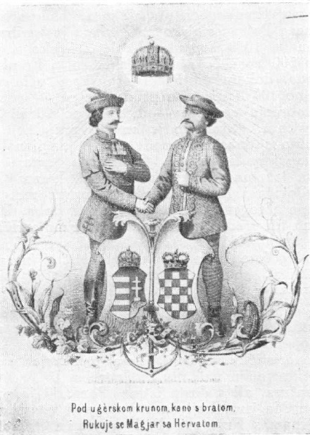 A caricature of Julije Huhn (1830-1896) published in 1860 about Croatian-Hungarian relations